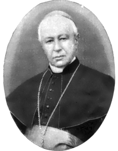 Photograph of Elzéar-Alexandre Taschereau, first Canadian Cardinal.